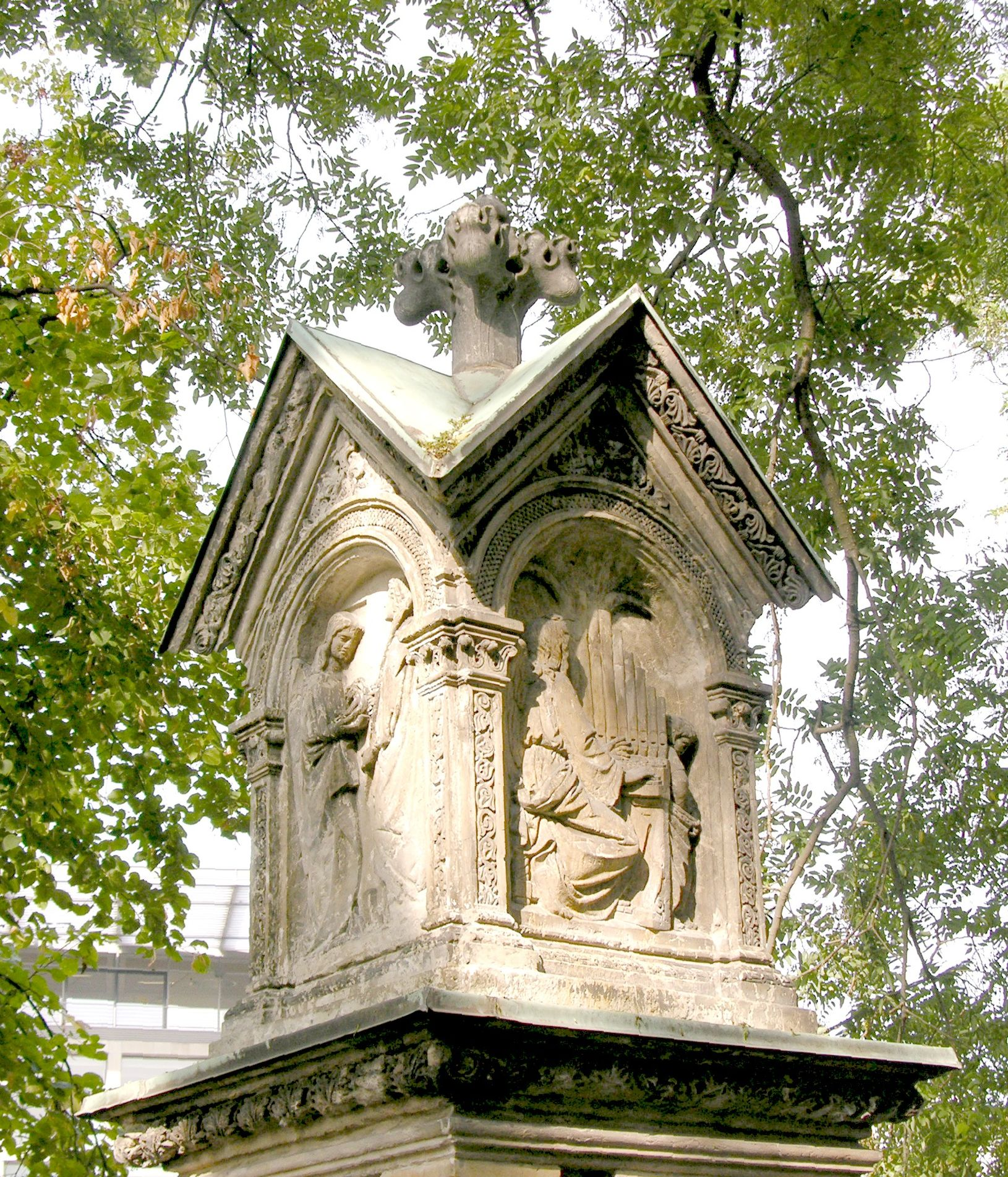 Old Johann Sebastian Bach monument in Leipzig detail.